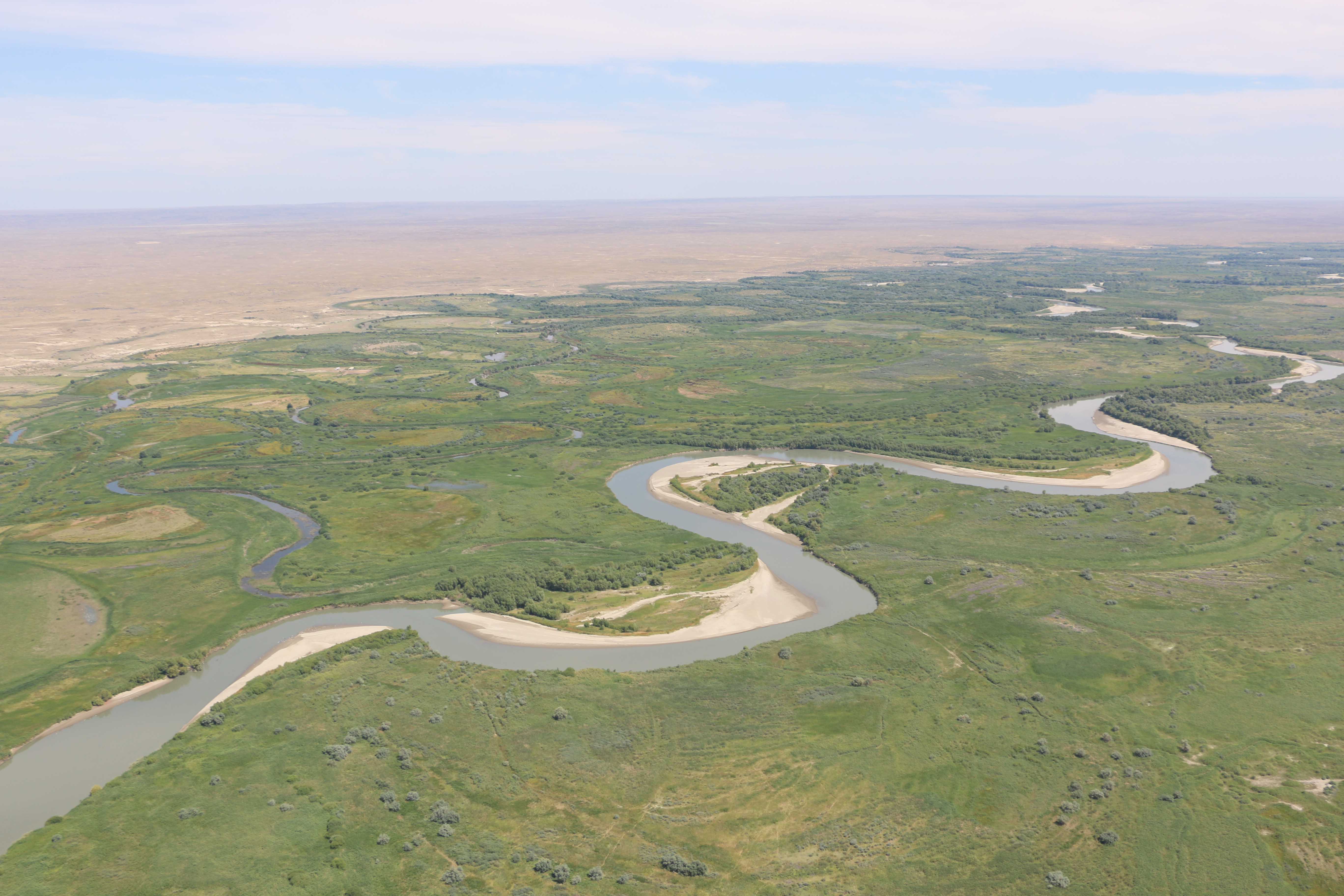 Karatal River